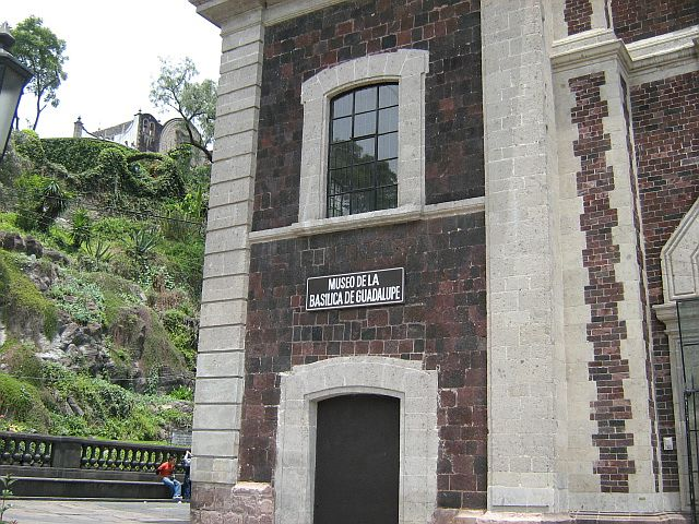 Museum at Guadalupe Tepeyac, Mexico City.